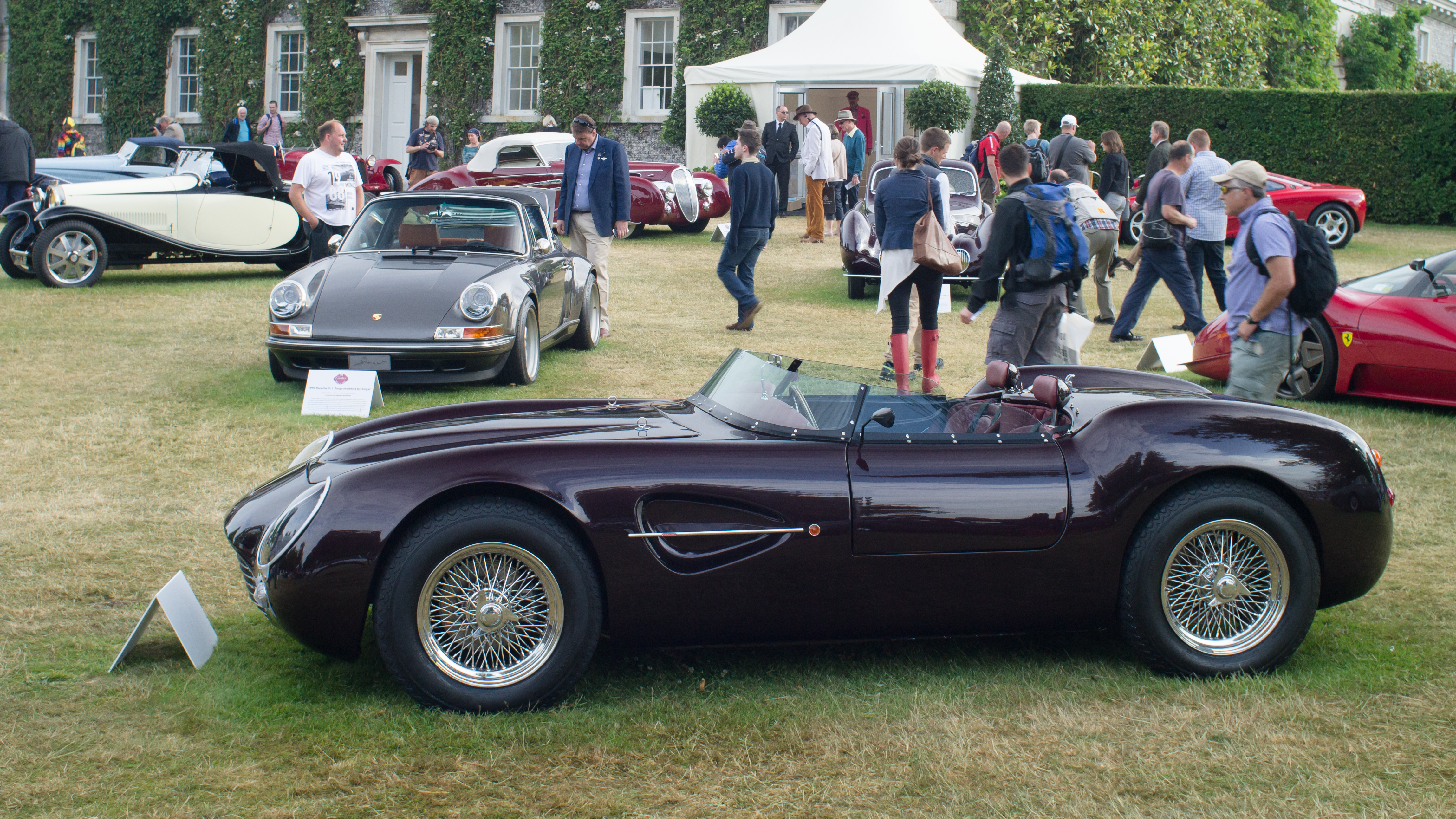 2014 Evanta Barchetta at the Goodwood Festival of Speed 2015.